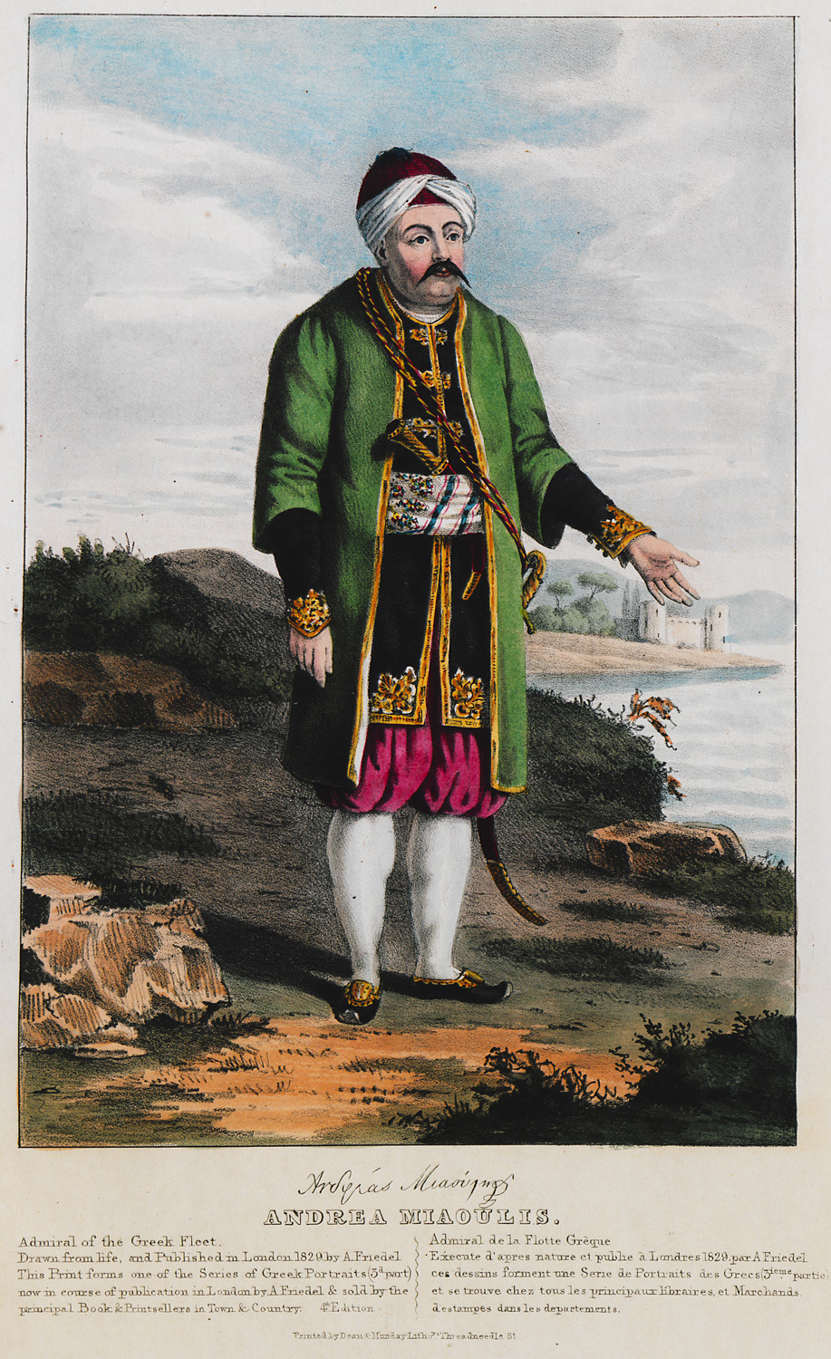 Adam de Friedel. The Greeks, Twenty-four Portraits of the principal Leaders and Personages who have made themselves most conspicuous in the Greek Revolution, from the Commencement of the Struggle, London, Adam de Friedel, 1830.